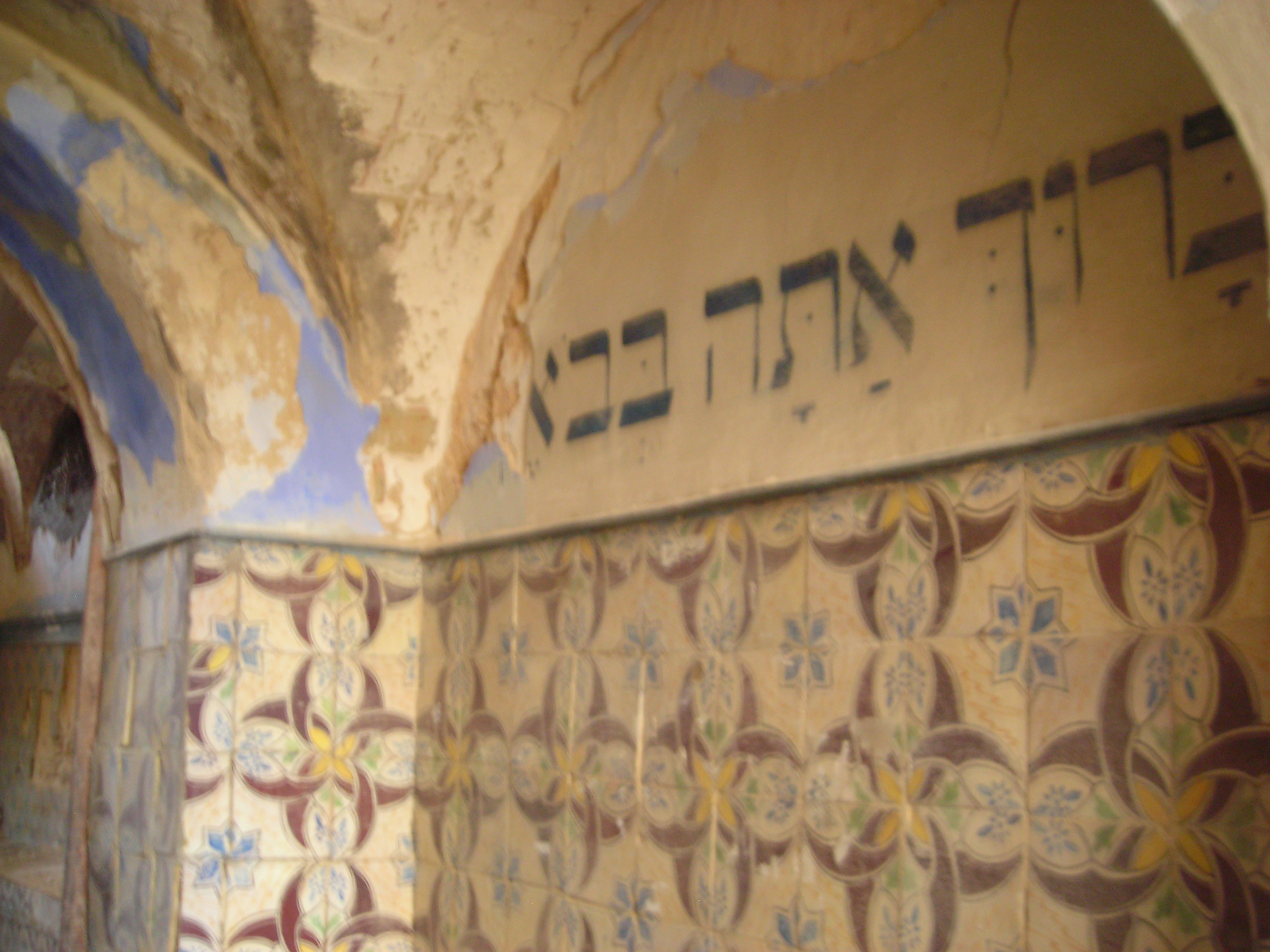 Moknine synagogue